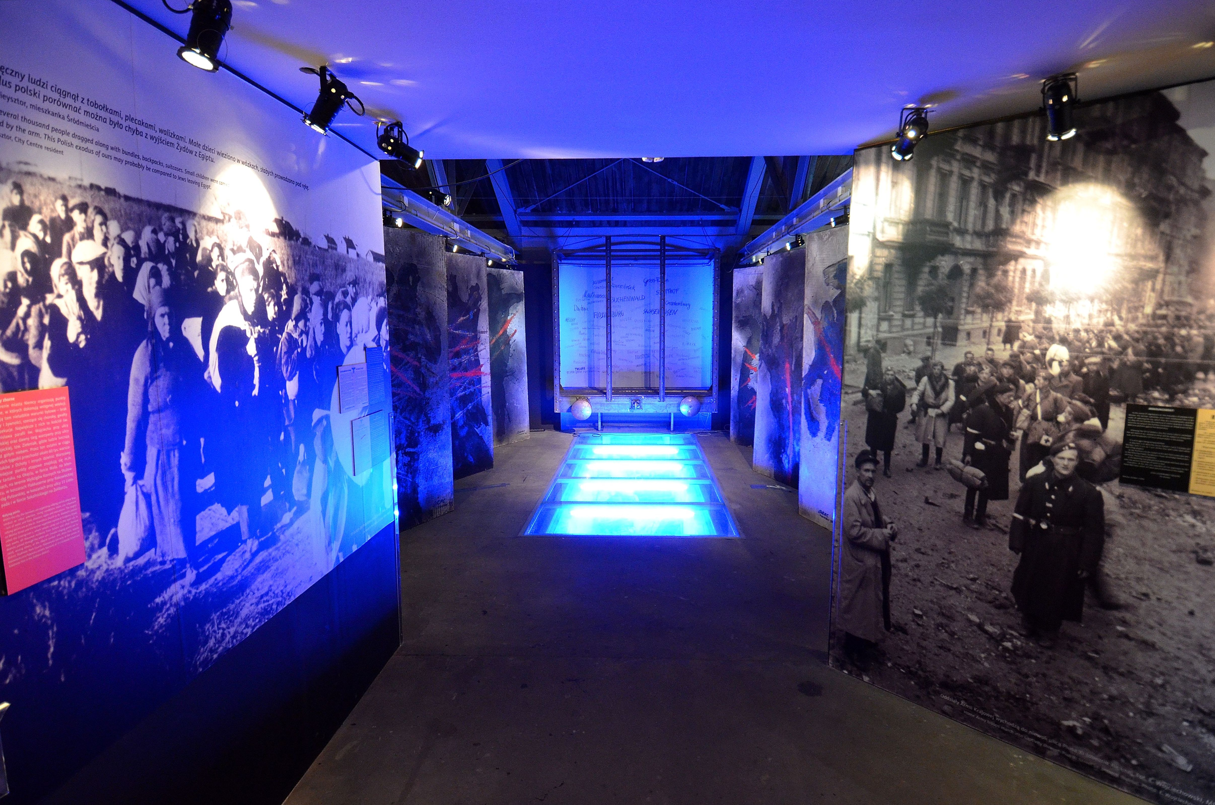 Dulag 121 Museum in Pruszków